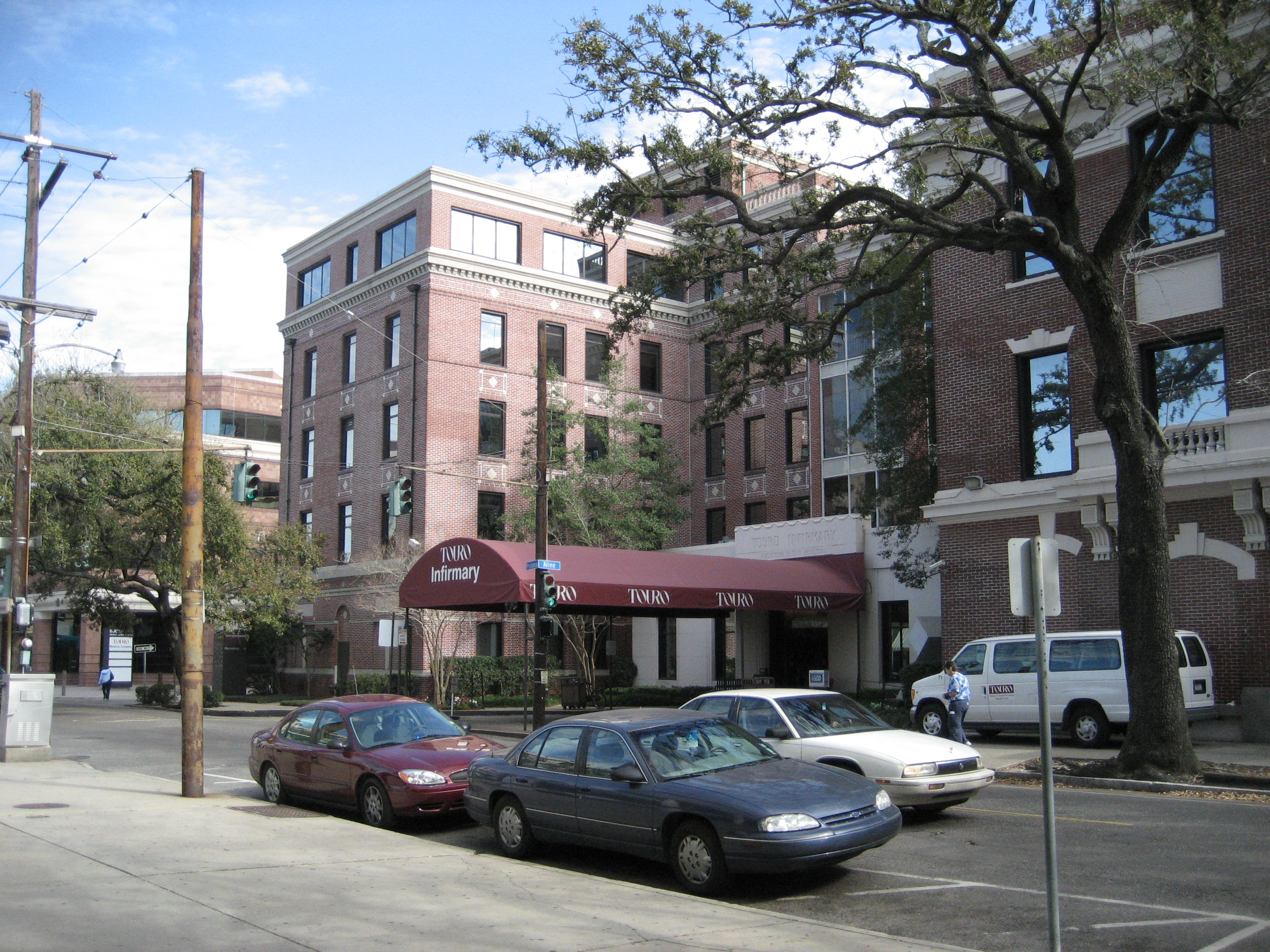 Touro Infirmary, Pyrtania Street in New Orleans Photo by Infrogmation, 2 March, 2007